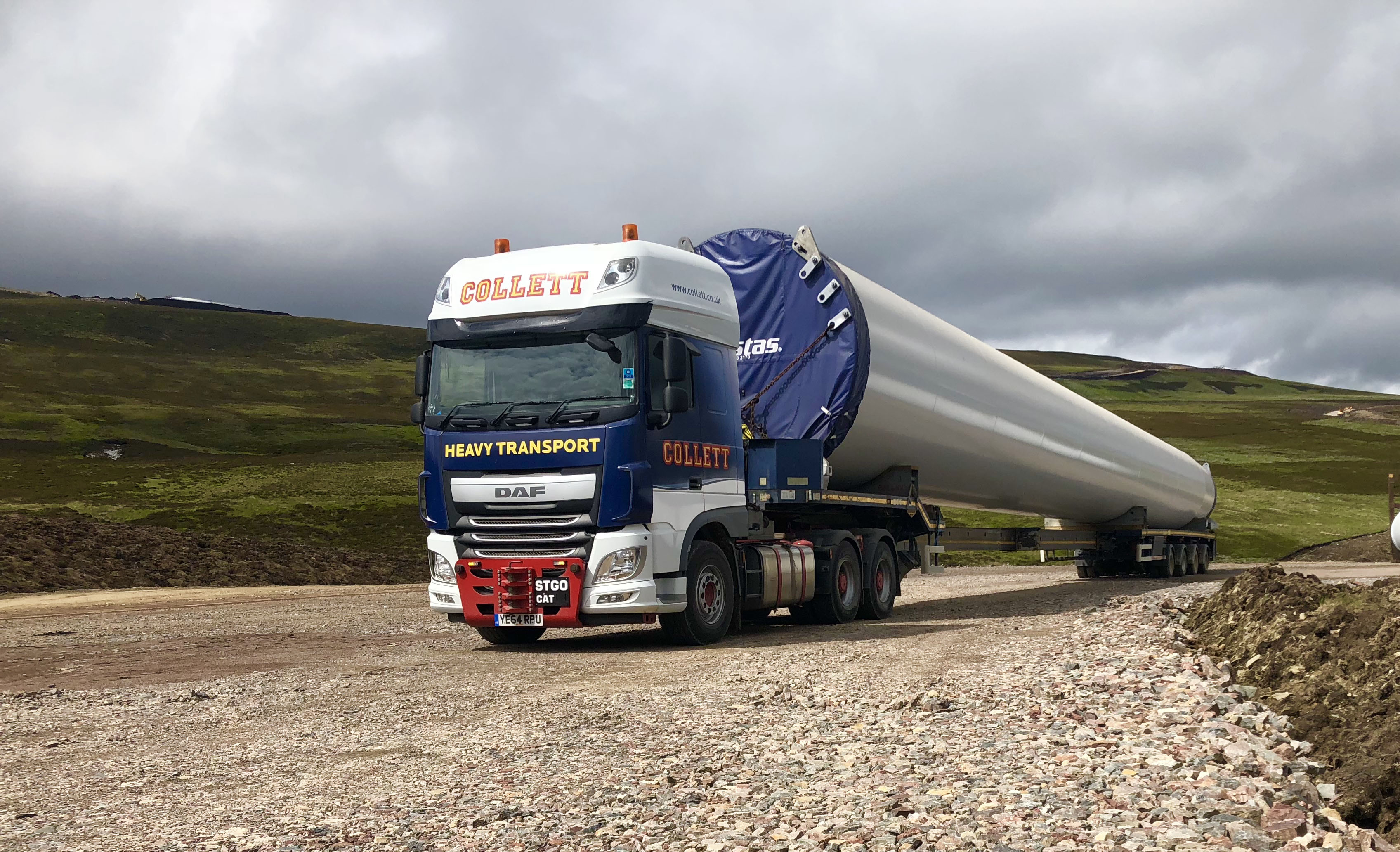 Vestas Tower sections delivered to Dorenell Wind Farm